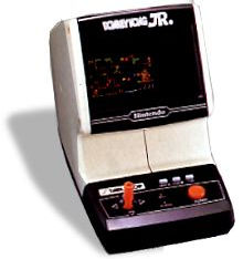 The Game & Watch game "Donkey Kong jr" in tabletop version.